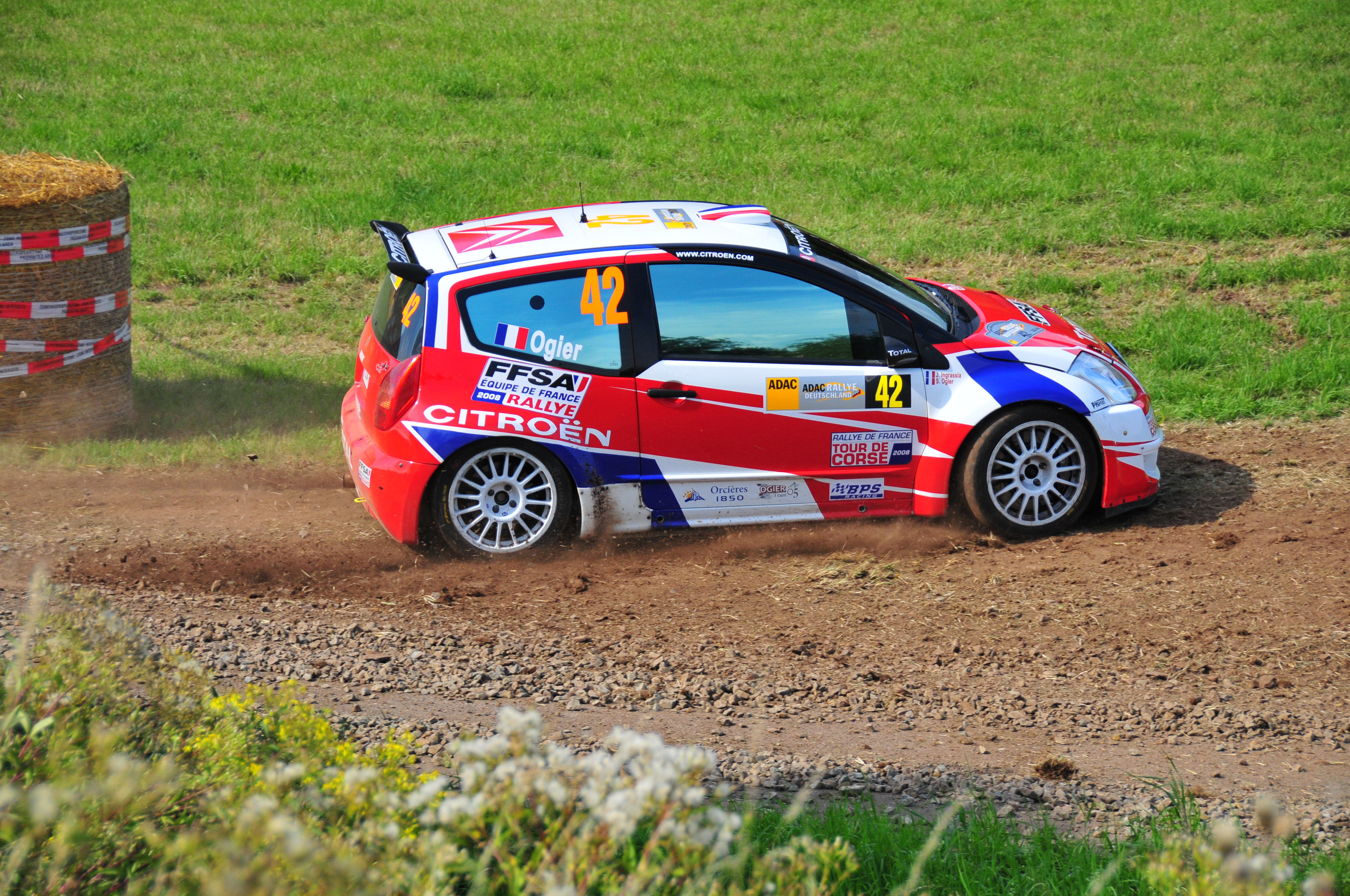 Sébastien Ogier driving his Citroën C2 S1600 at the 2008 Rallye Deutschland.